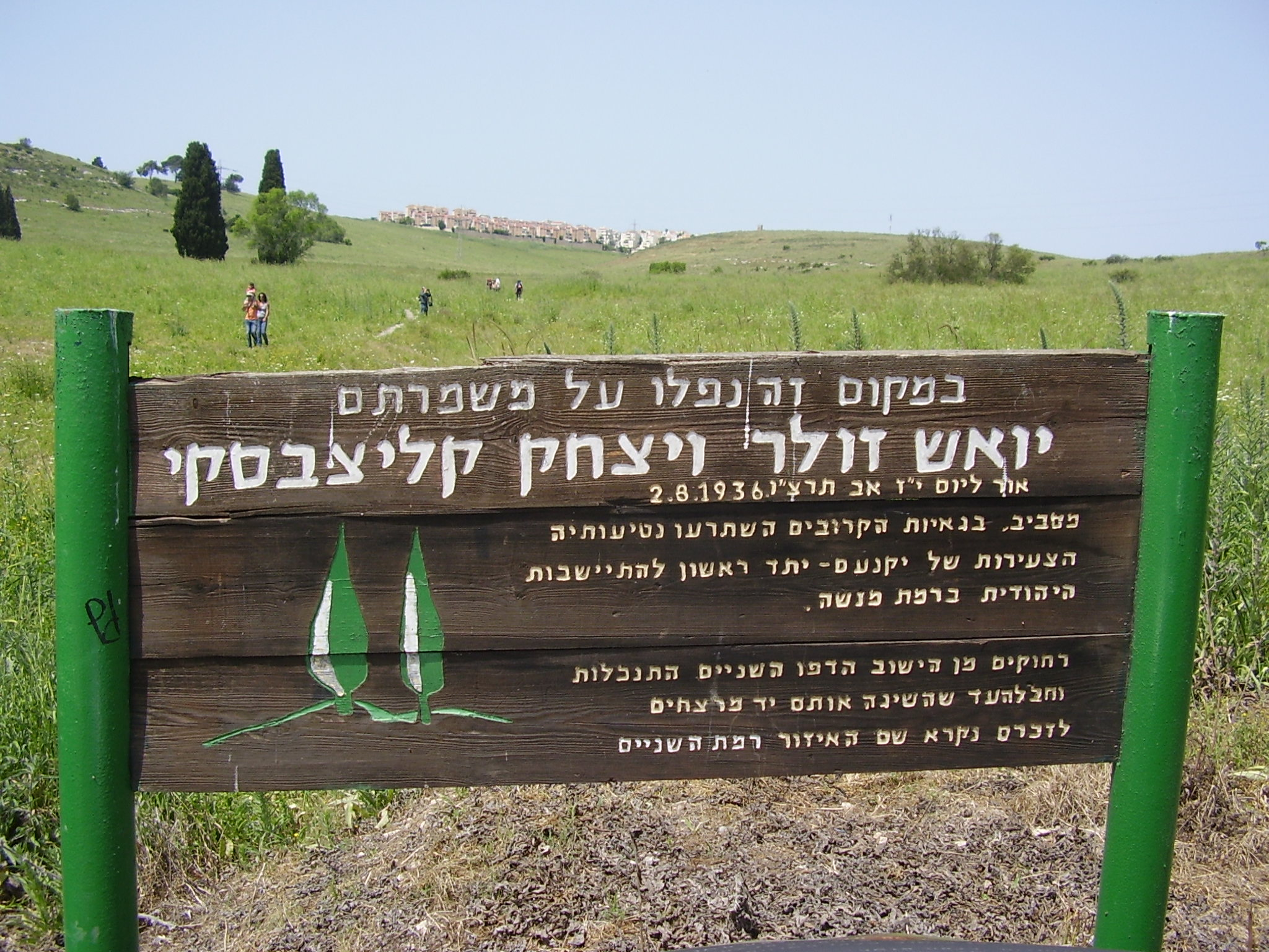 memorial plate to the two guards-yoash and izhak, in ramat hashna'im, israel שלט זכרון לשומרים יואש זולר ויצחק קליצ'בסקי שנפלו במקום ב-1936. על שמם נקרא המקום- רמת השניים